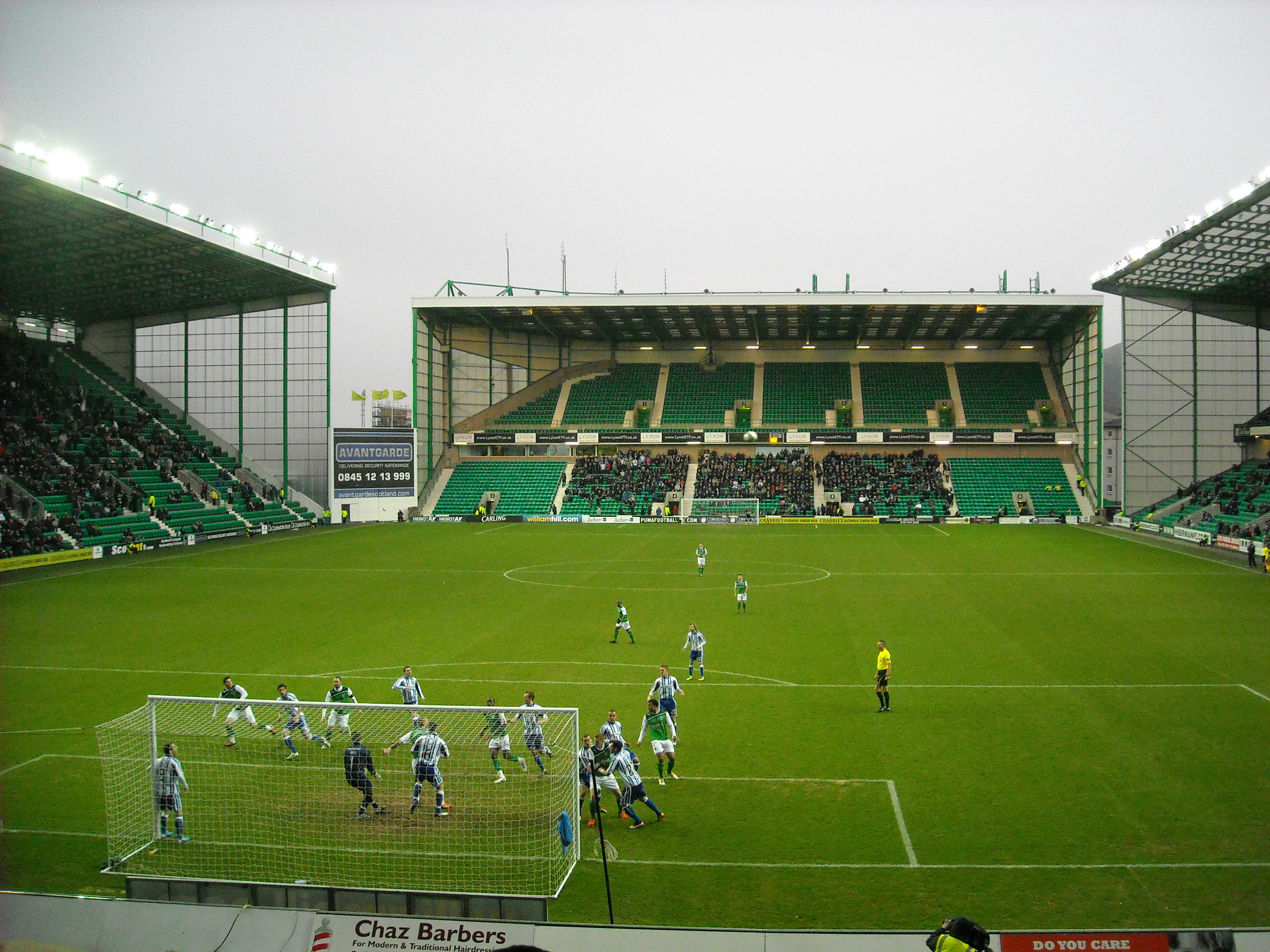 William Hill Scottish Cup 5th Road. Easter Road Stadium, Edinburgh. Attendance: 8,198